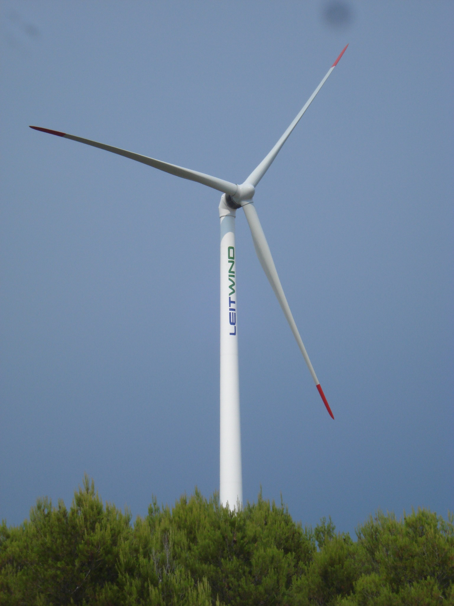 Wind turbine at Šibenik, Croatia